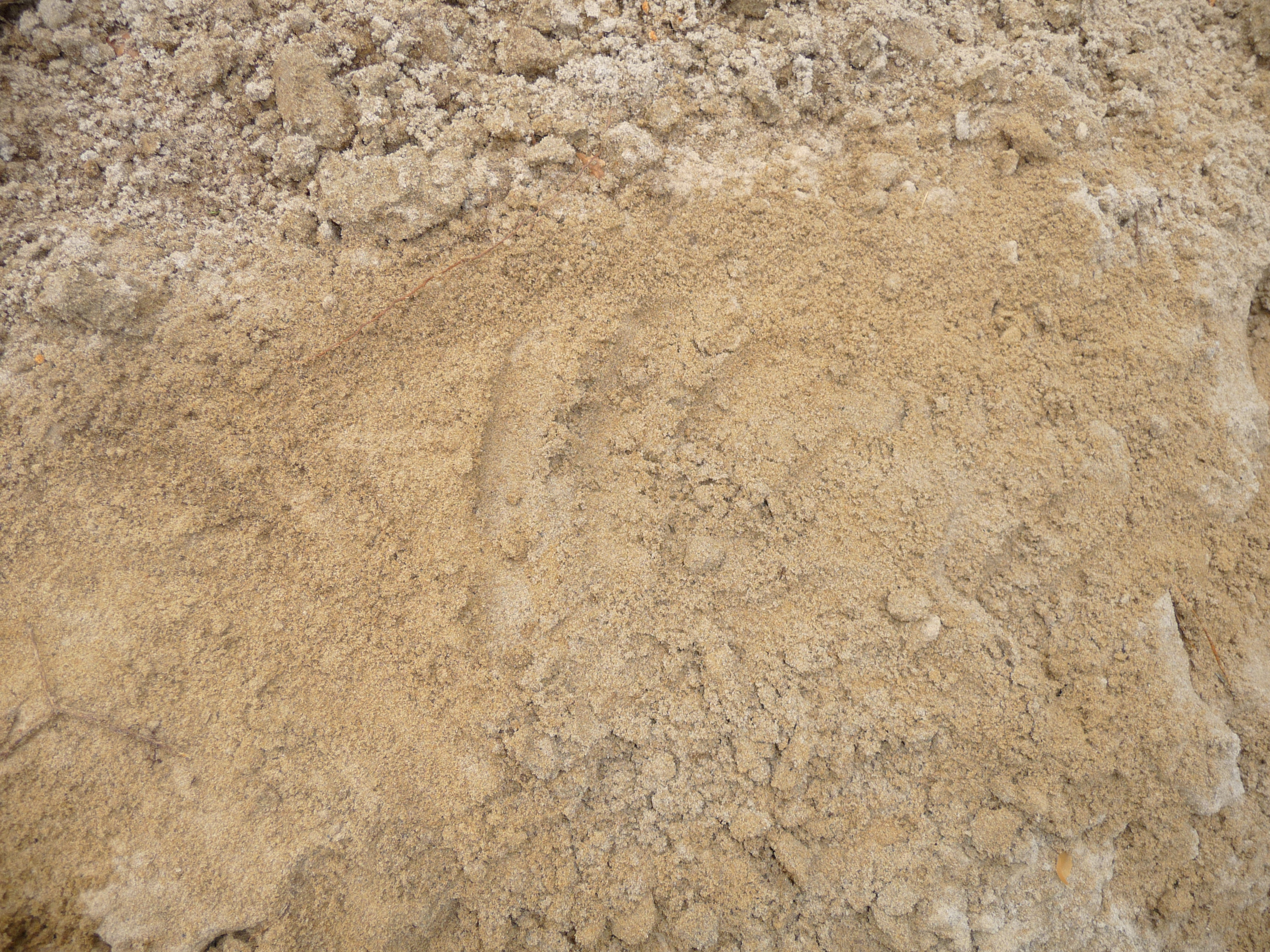 Sandy loam